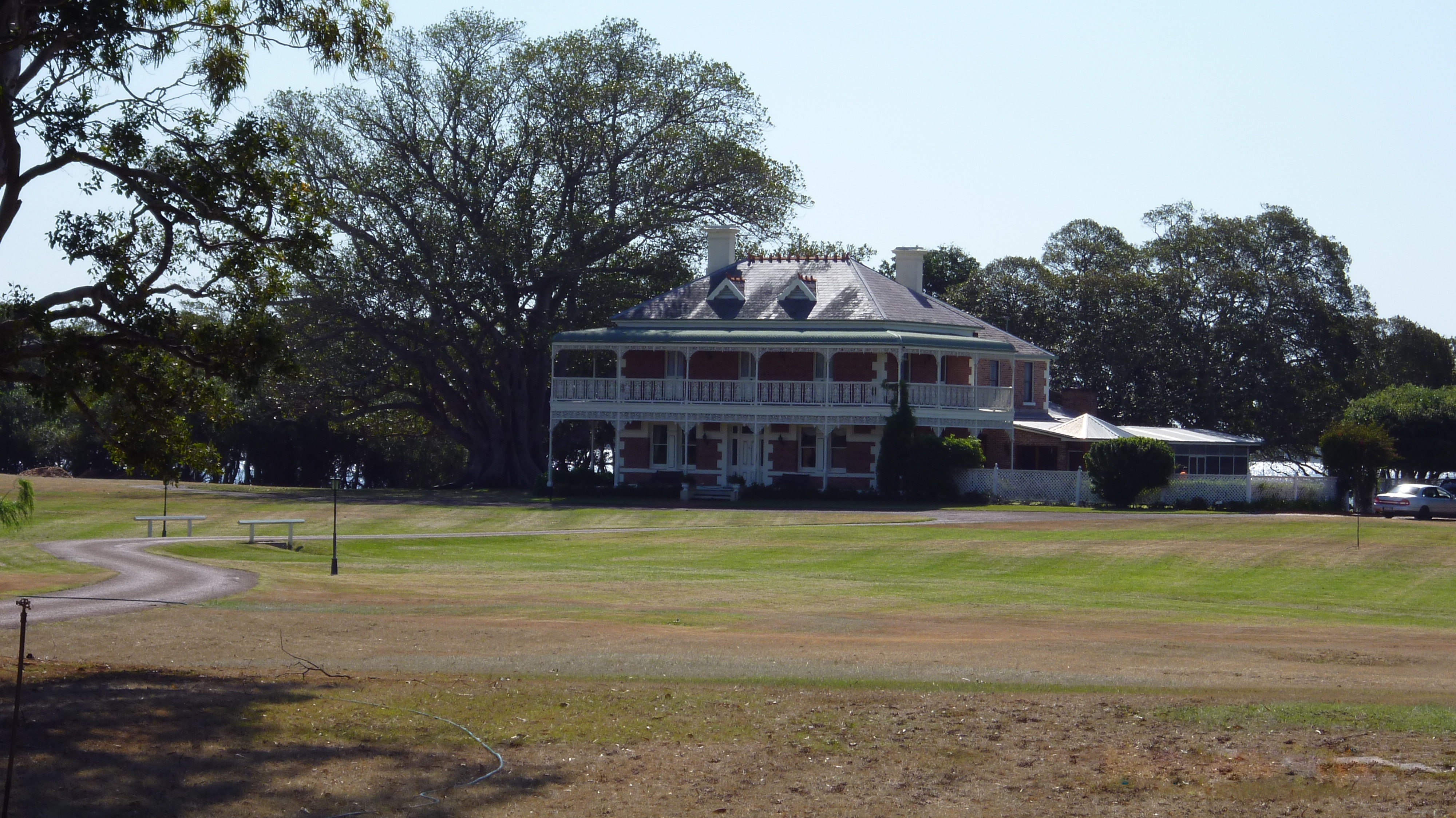 Historical Stanley Park property at Fullerton Cove sign on Fullerton Cove Road in New South Wales, Australia.